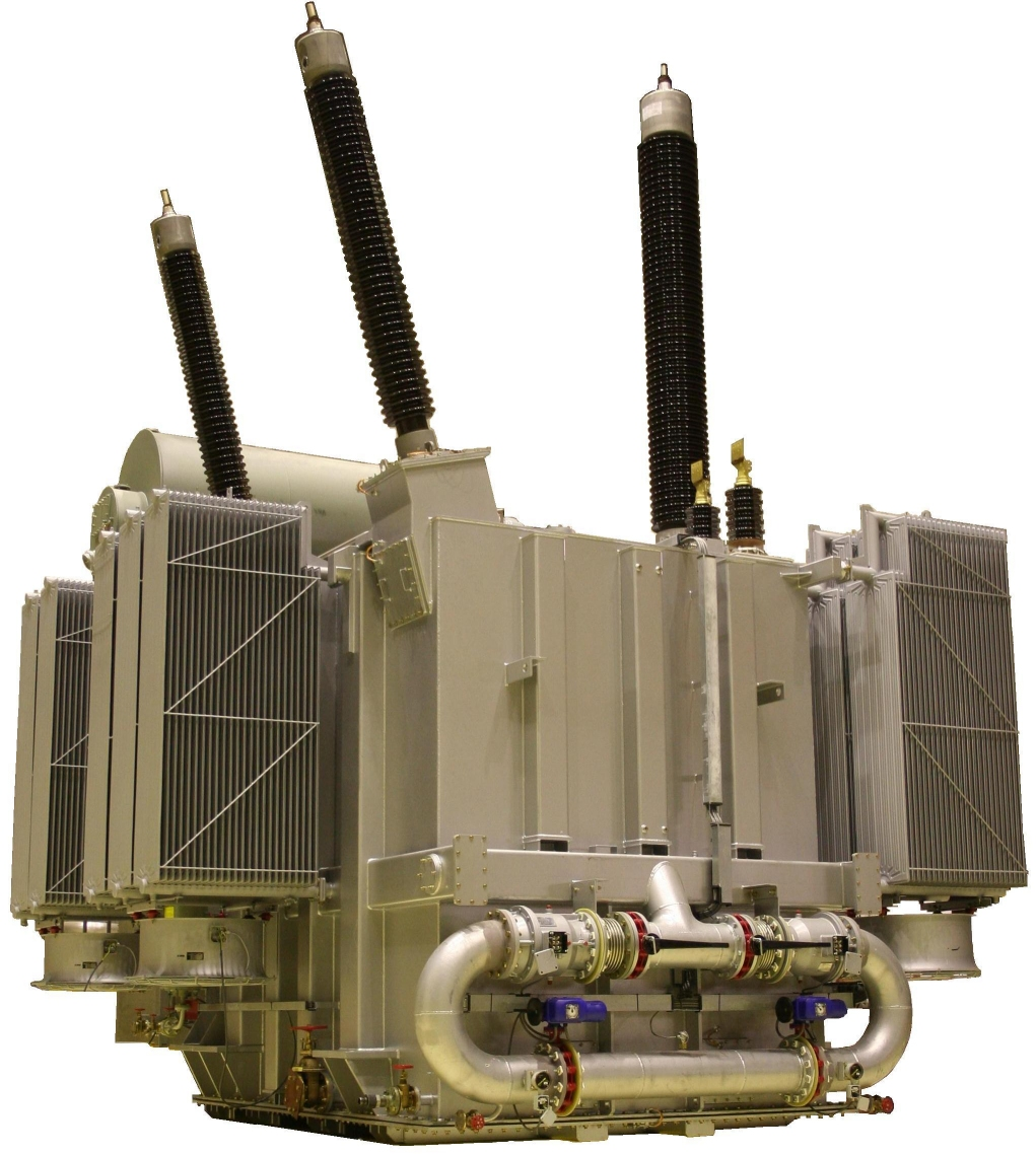 Single phase transformer rated 166.67 MVA 400/225/31.5 kV with ONAN/ONAF/ODAF cooling.